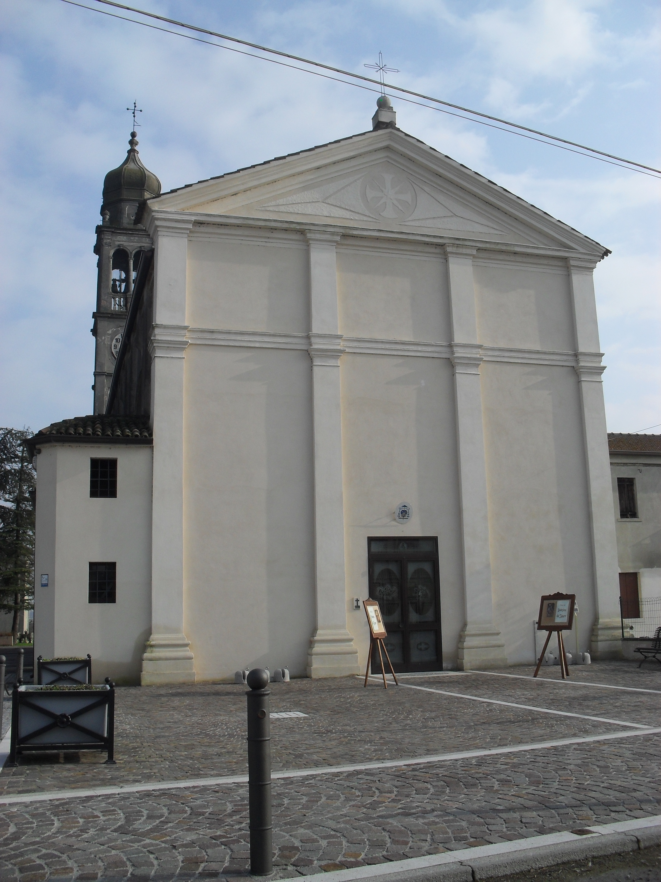 S. Margherita's facade in Presciane - San Bellino (RO), Italy